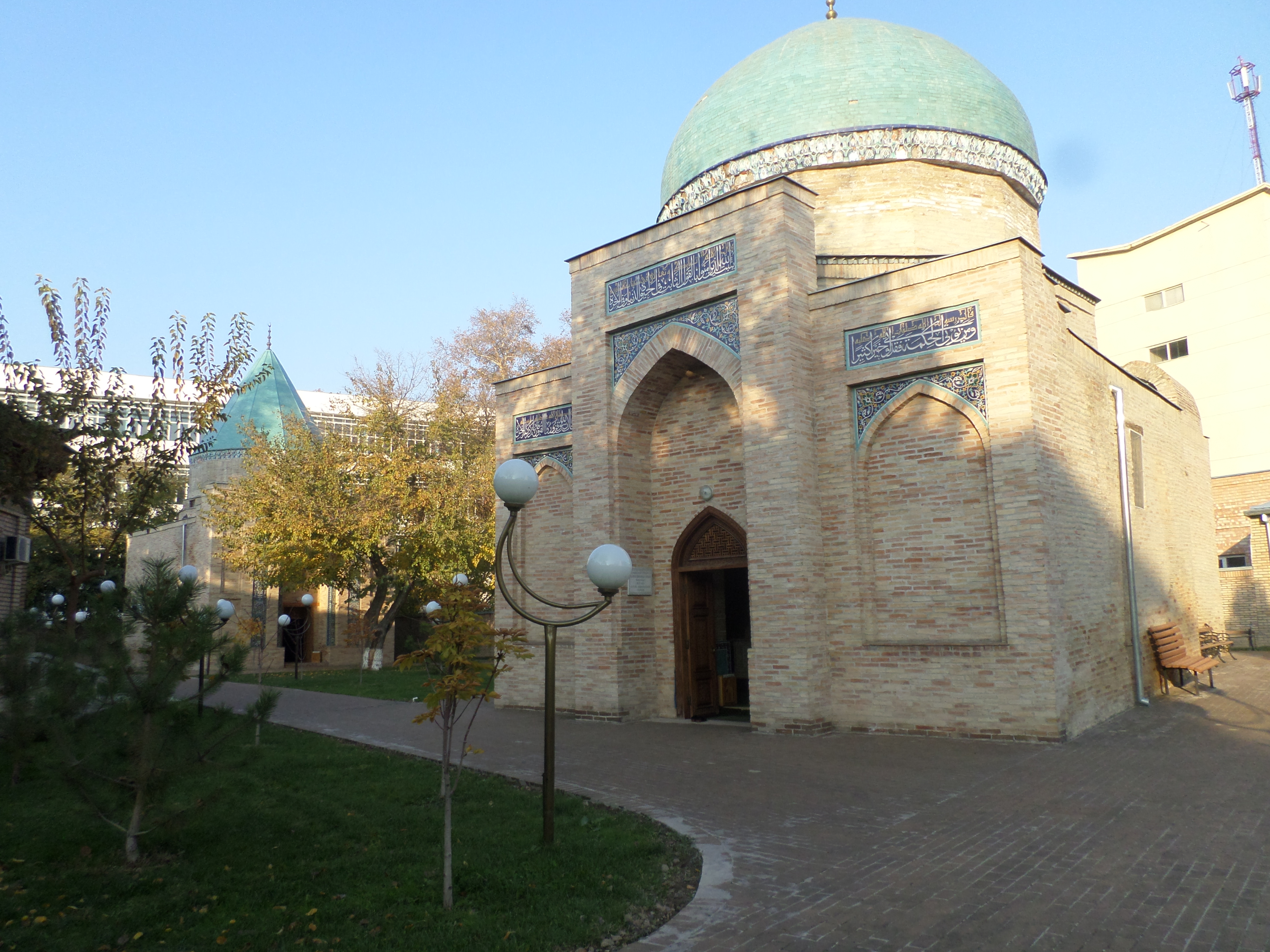 Ensemble Sheikhantaur